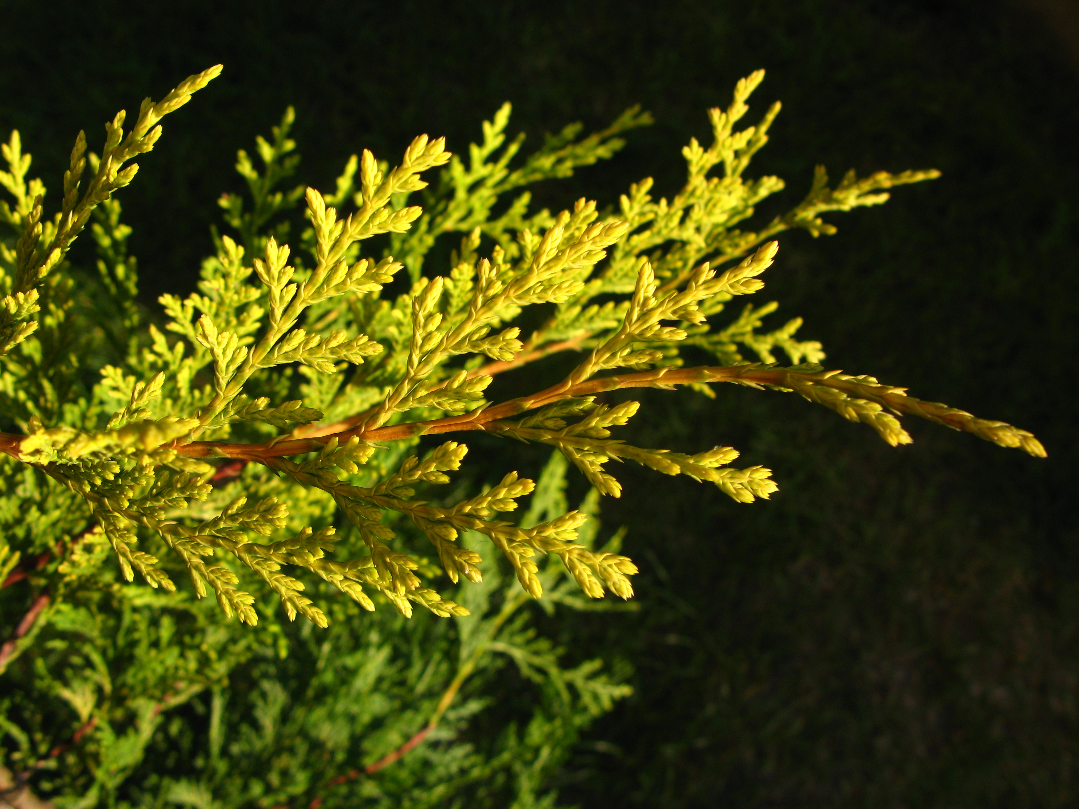 Leyland Cypress 'Castlewellan Gold' leafs, Marki, Poland